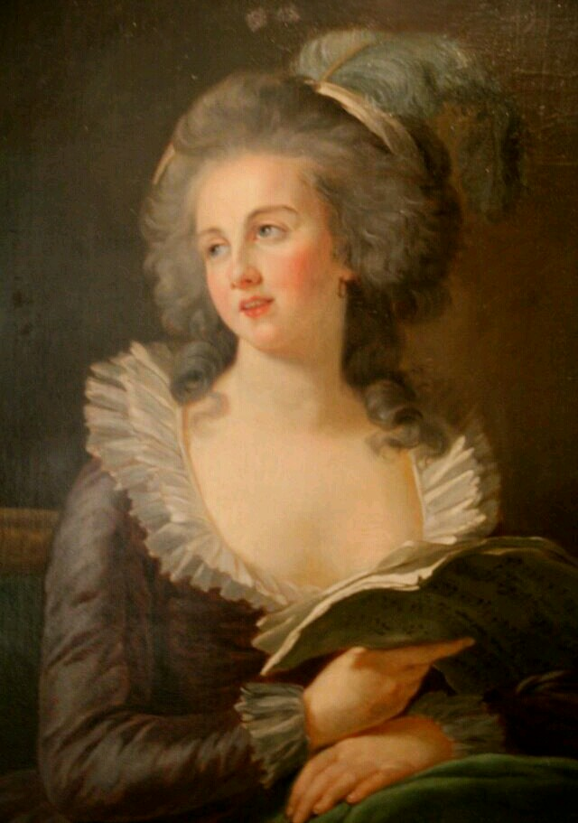 Yolande de Polastron, duchess of Polignac